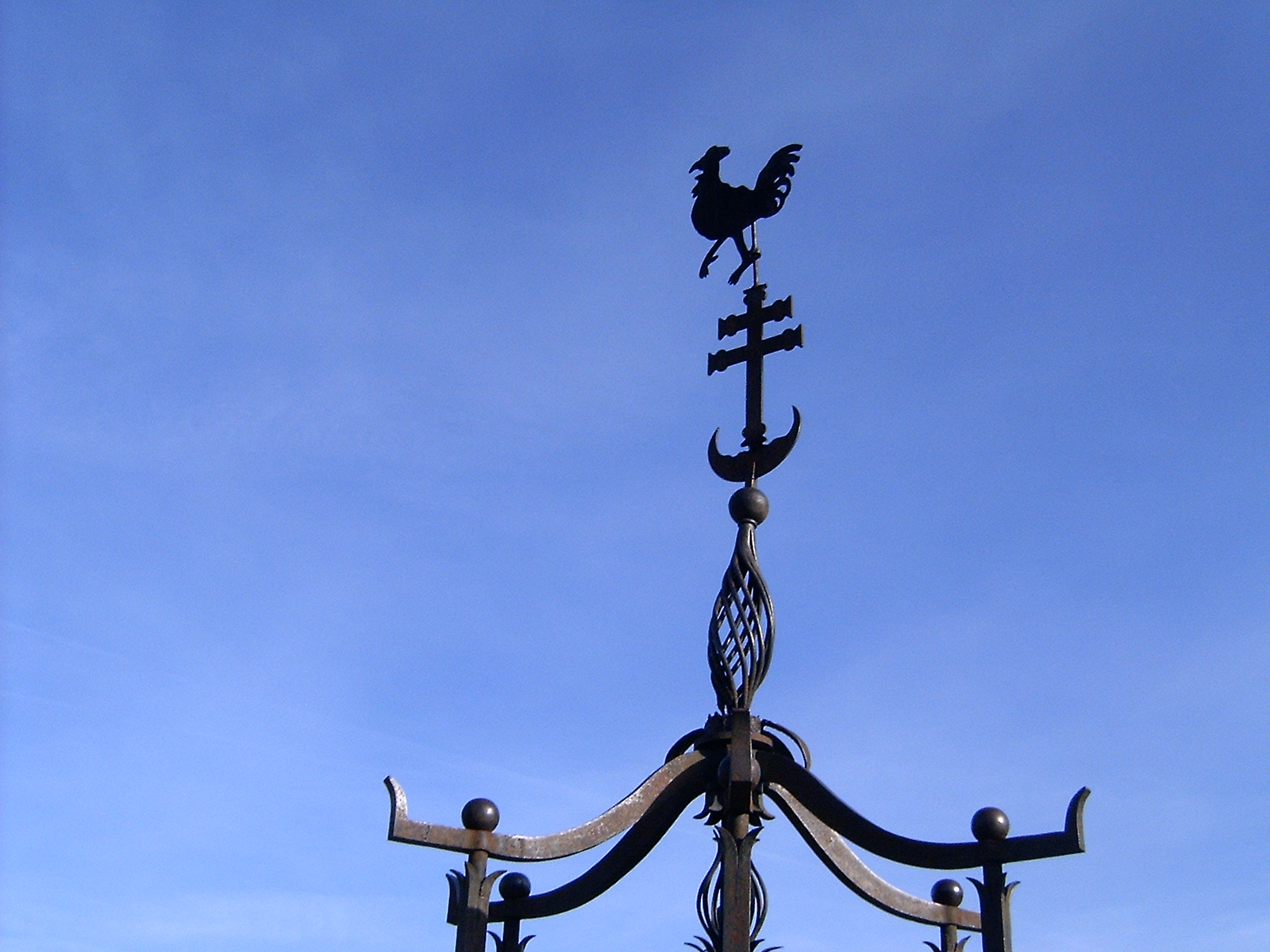 The Iron Cock in Győr